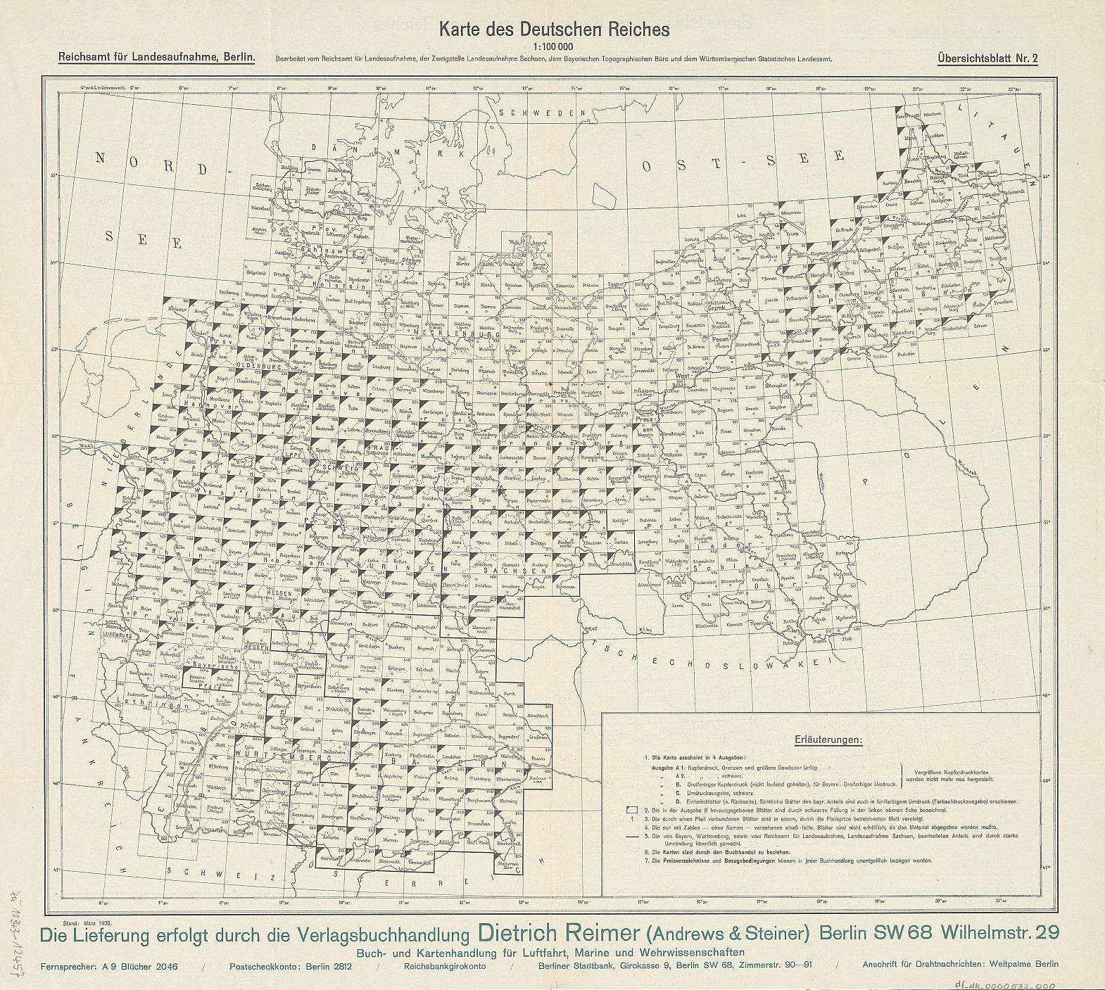 Karte des Deutschen Reiches. 1 : 100.000.